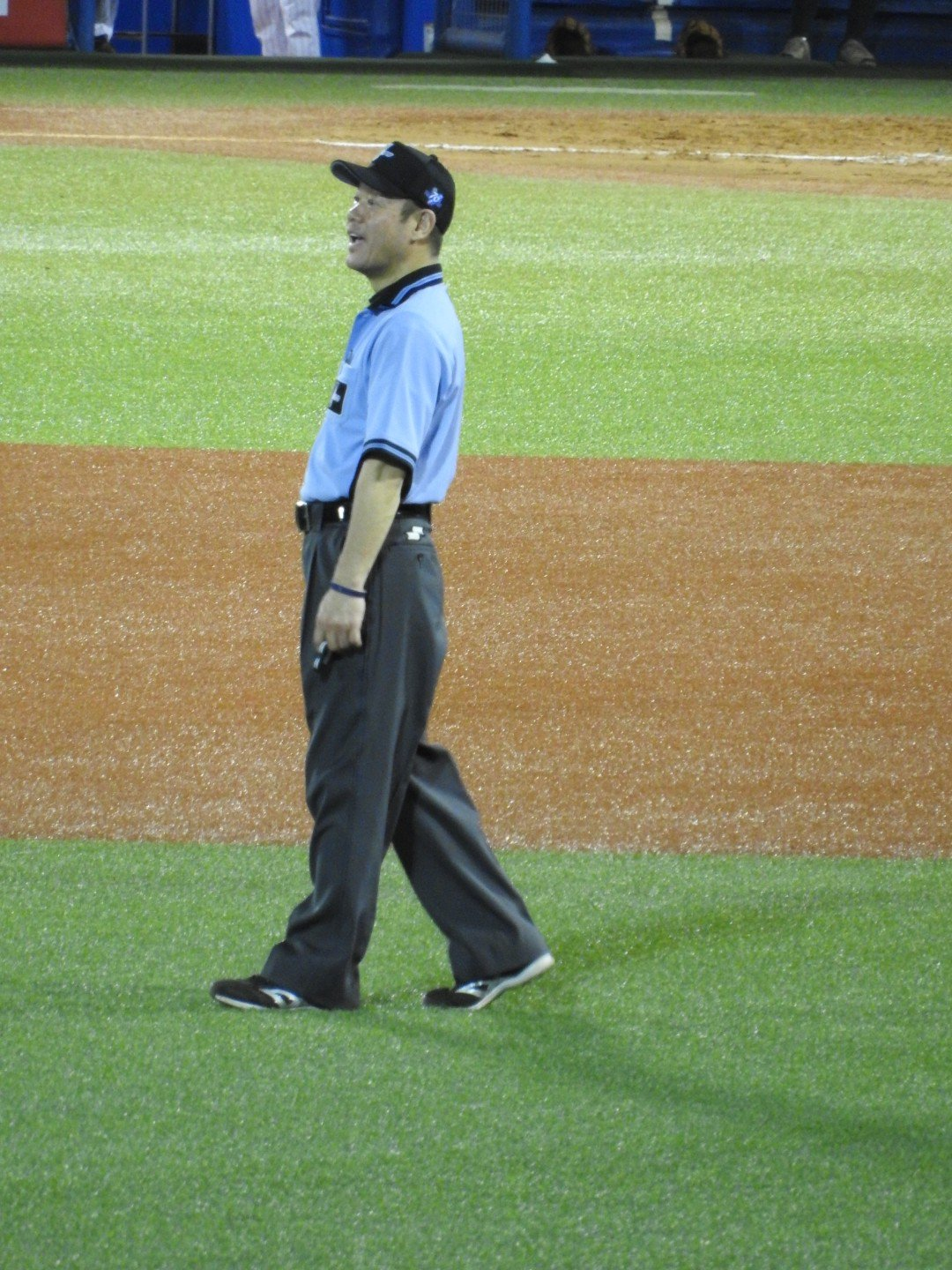 umpire of NPB.